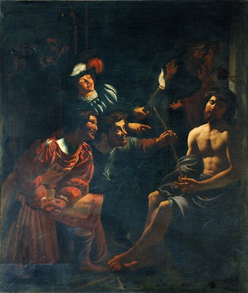 The Mocking of Christ